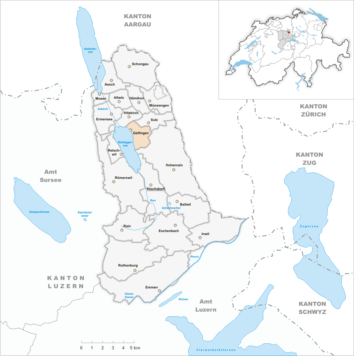 Municipality Gelfingen